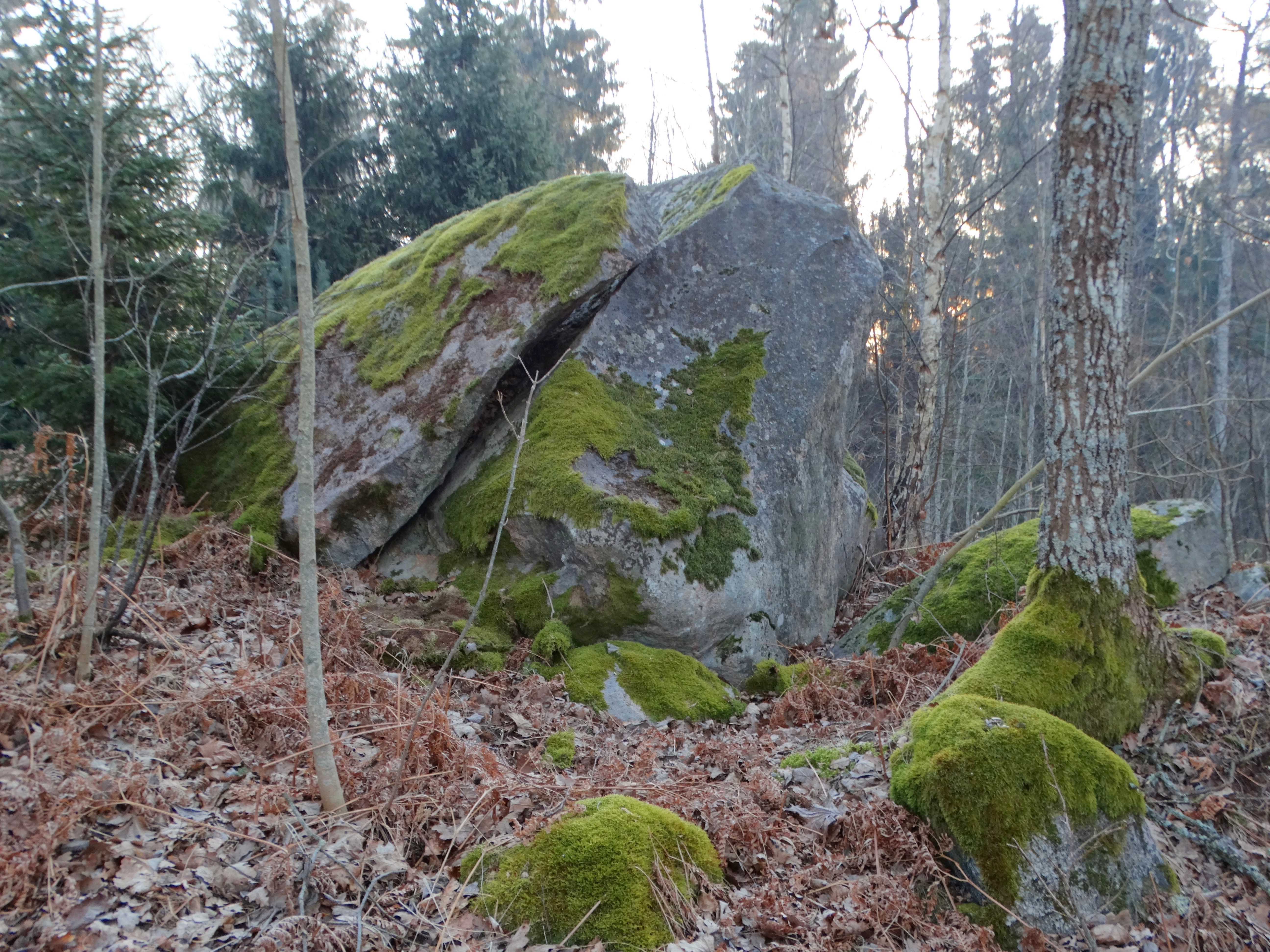 Urkuvėnai Stone, Šiauliai district, Lithuania